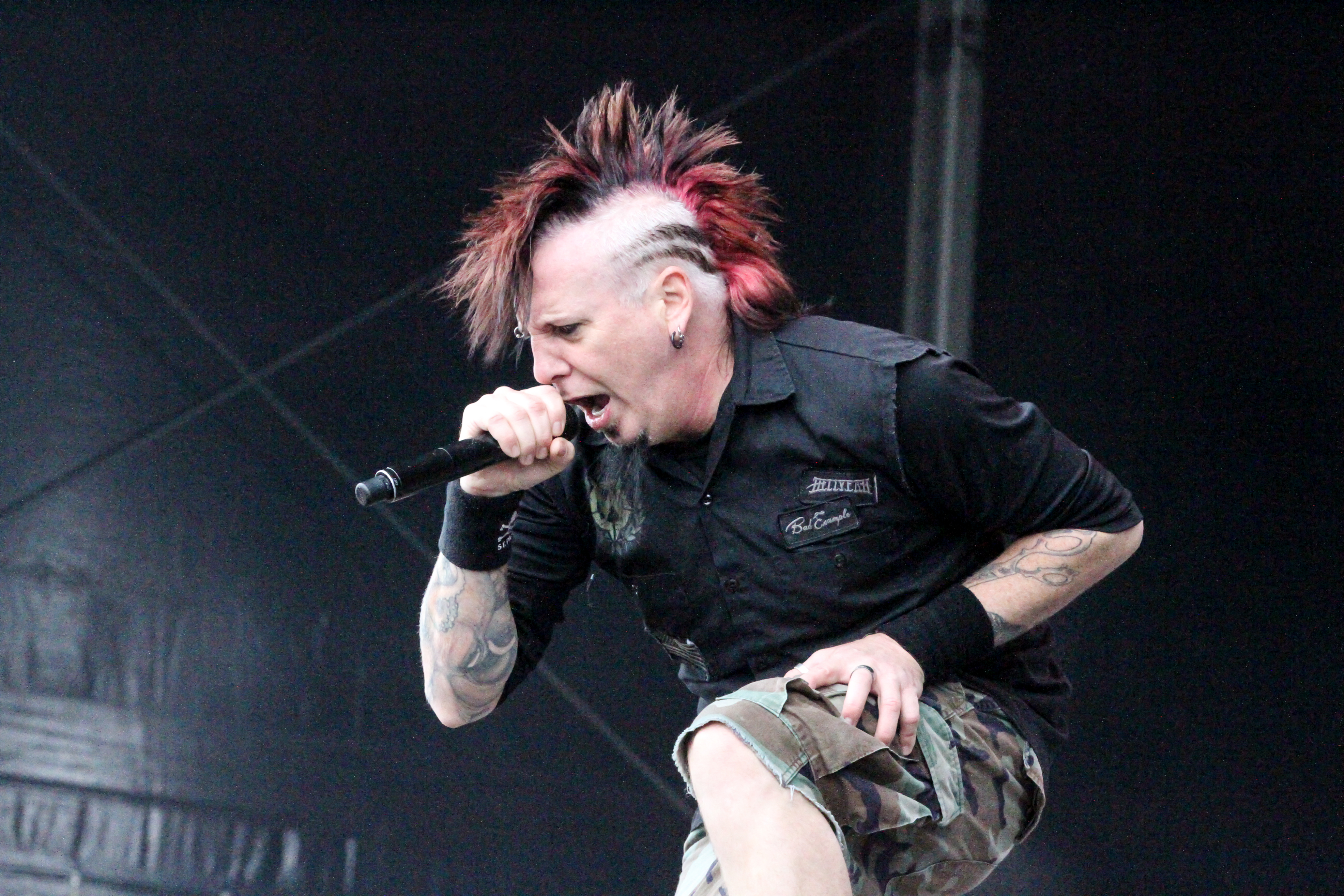 Hellyeah performing at With Full Force Festival 2013